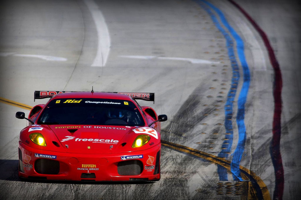 Risi Competizione's Ferrari F430 GT at the 2008 American Le Mans Series at Long Beach.